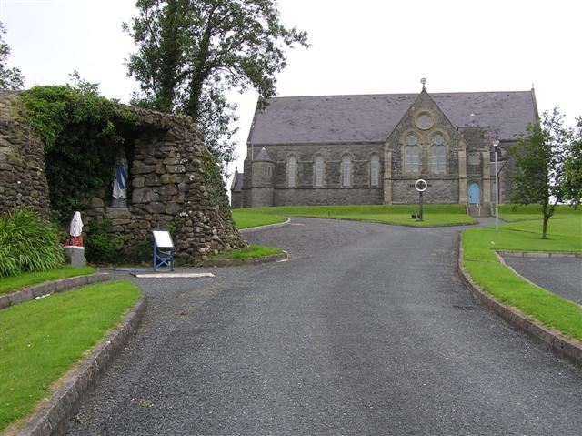 Knockatallan RC Church and Shrine Looking north